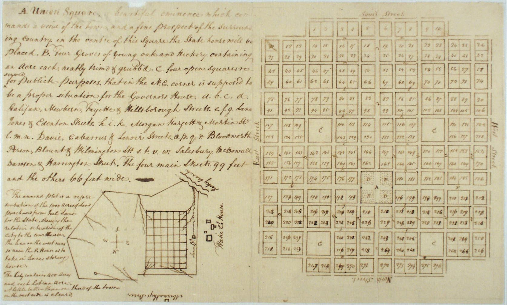 Proposed plan for Raleigh, North Carolina, by William Christmas, 1792. Image courtesy of Learn North Carolina, a program of the University of North Carolina at Chapel Hill School of Education.